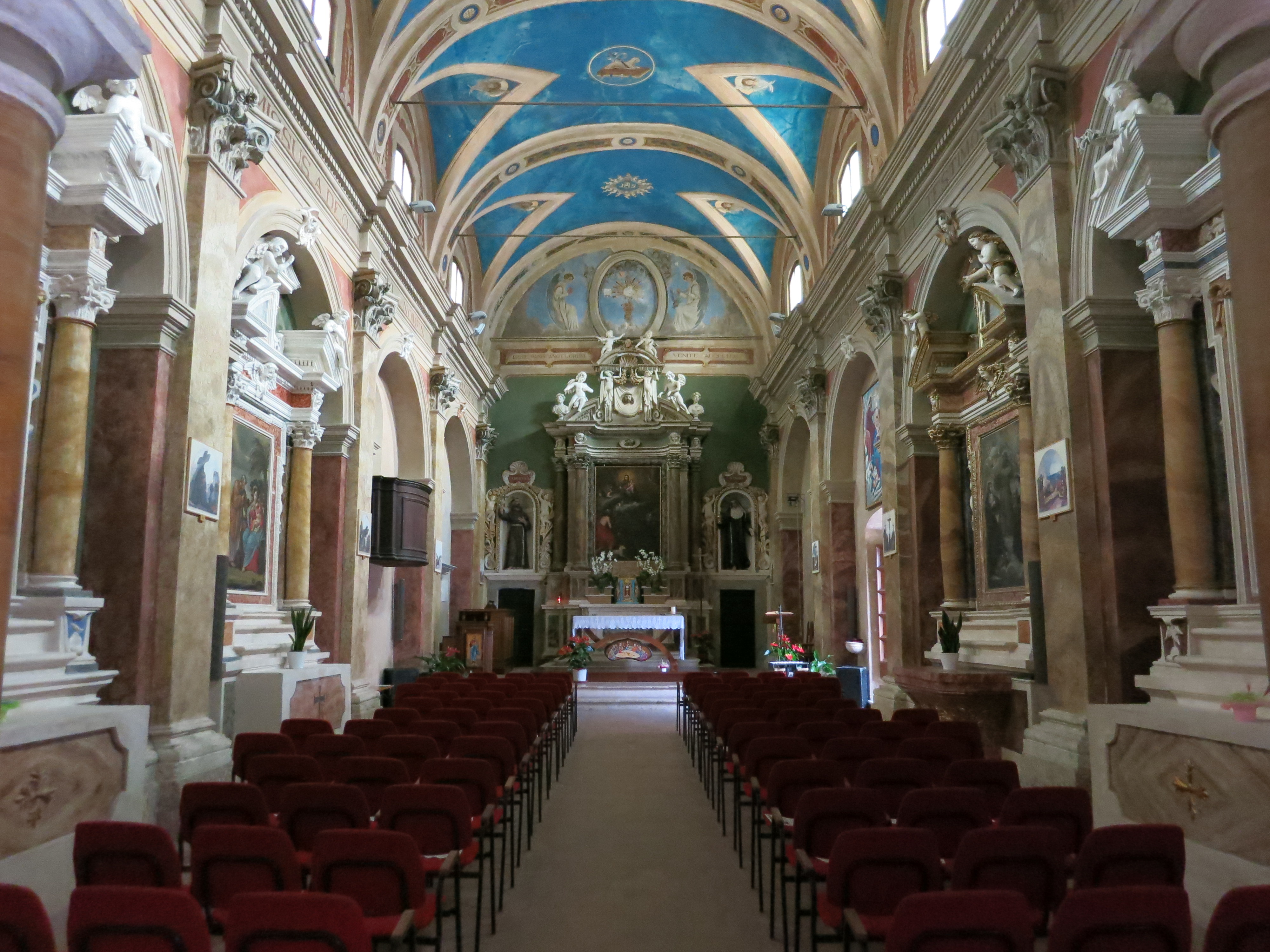 Saint Claire church - Antrodoco (province of Rieti, central Italy)